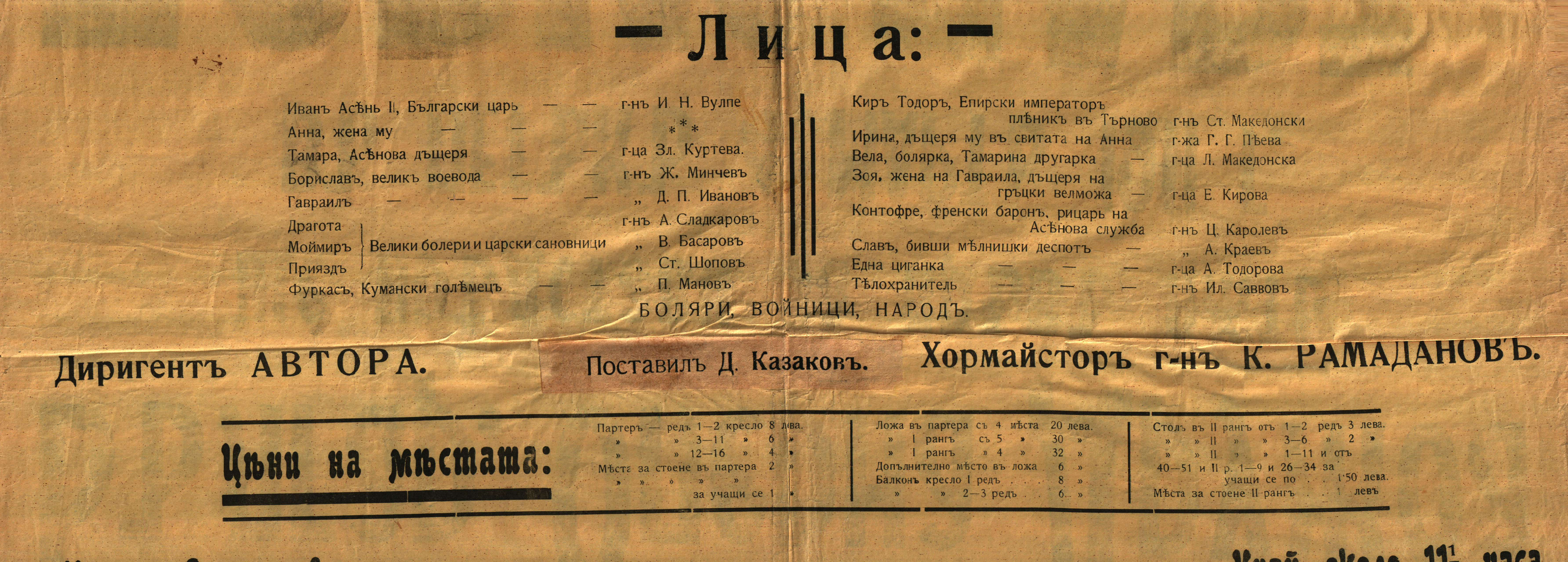 Bulgarian opera „Borislav“